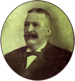 Juan_Bravo_Pérez